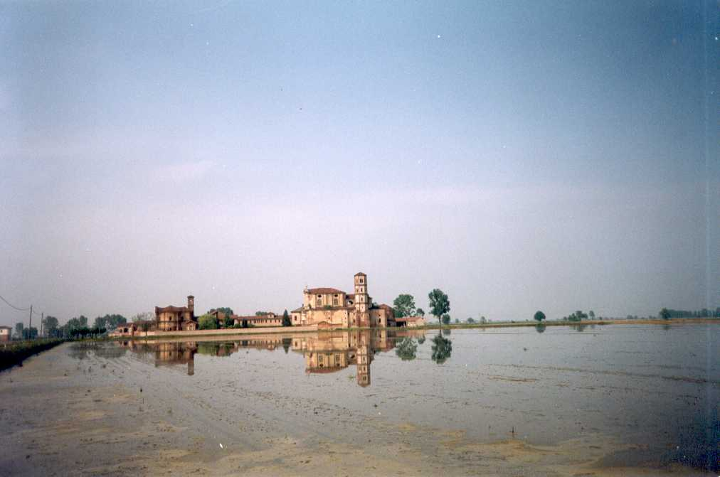 The Lucedio Abbey and the rice-fields around it, Trino, Vercelli, Italy